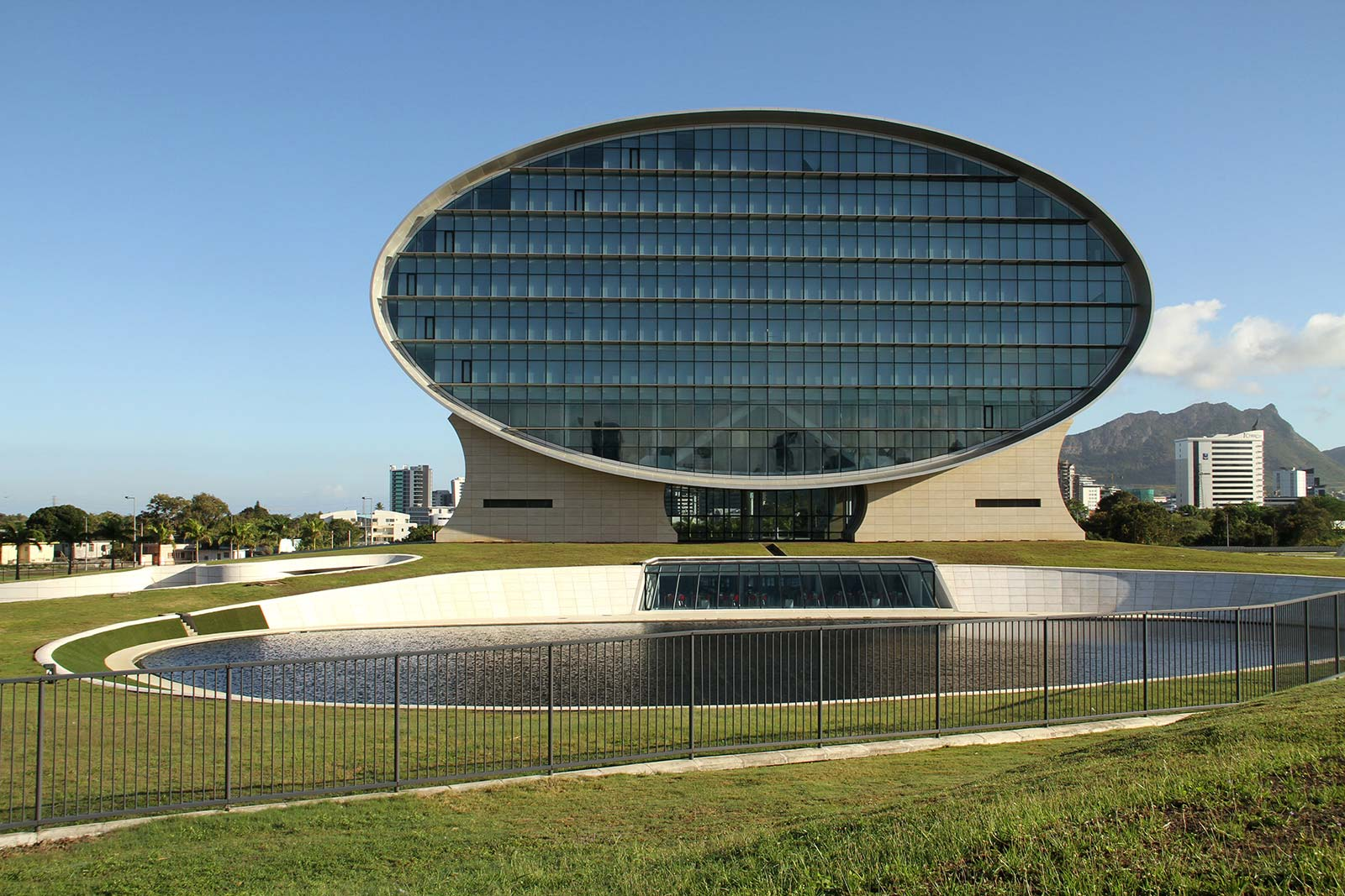 Mauritius Commercial Bank's branch in Ebene Cybercity